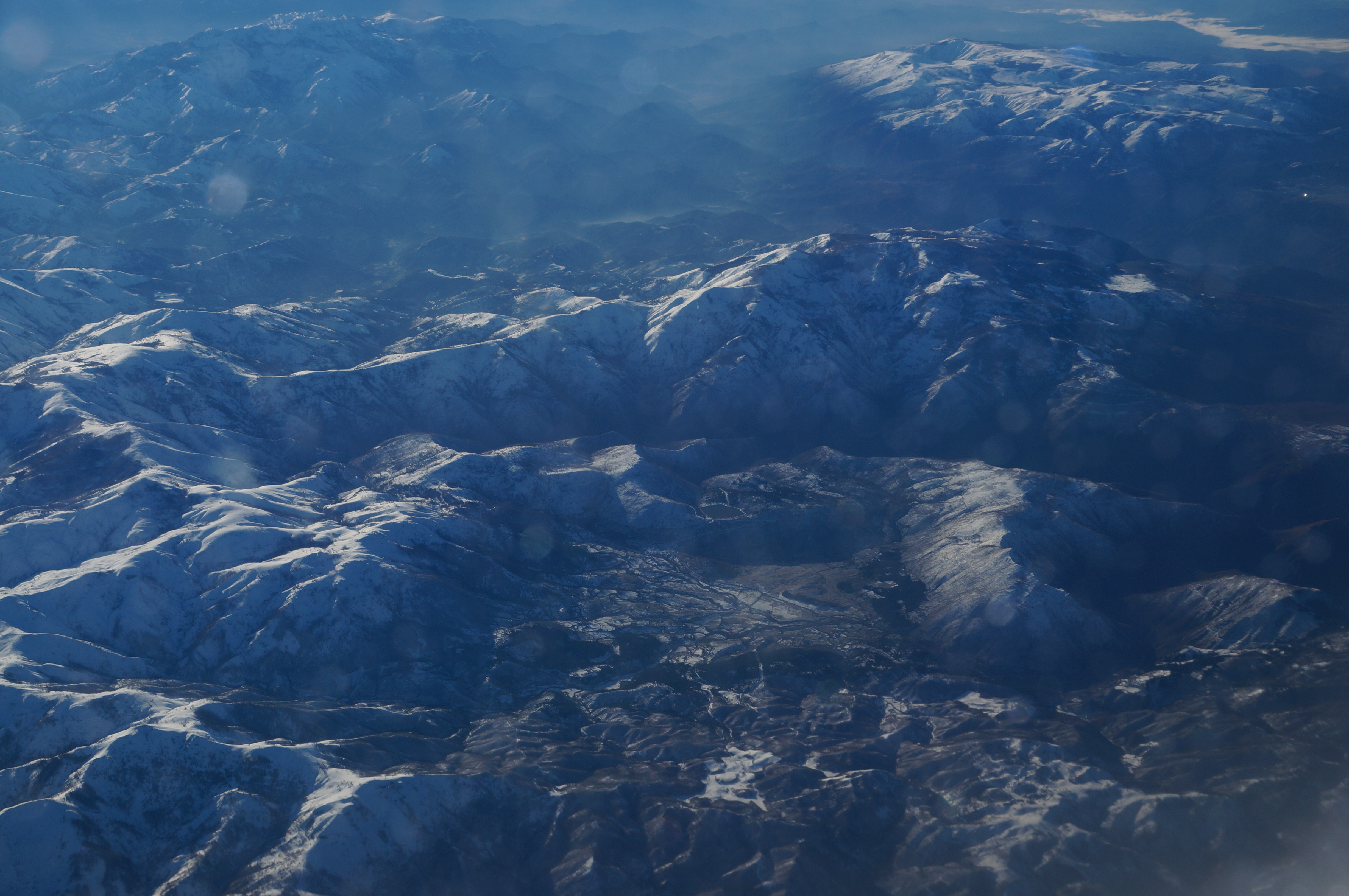 Iballa and surrounding Puka mountains